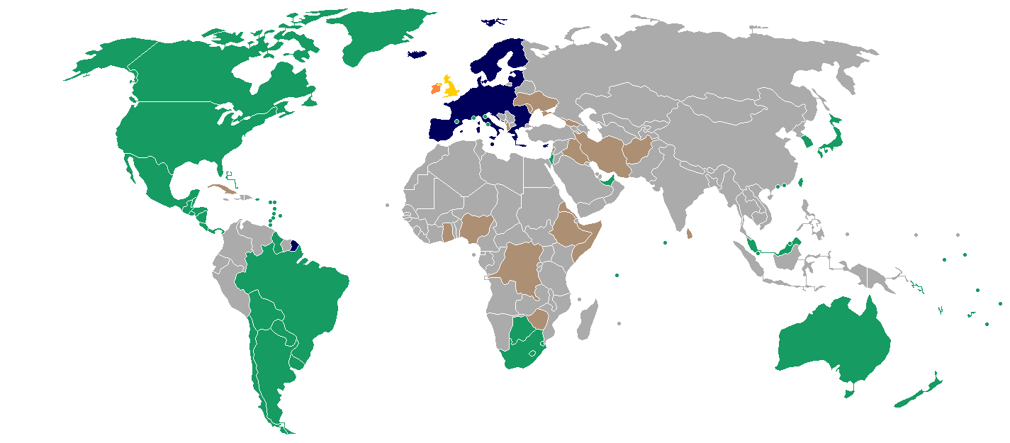 Visa policy of the Republic of Ireland Republic of Ireland Freedom of movement (EU/EEA/CH citizens) Visa-free access to Ireland for 90 days Visa required to enter Ireland, transit without visa Visa required to enter Ireland and for transit through Ireland